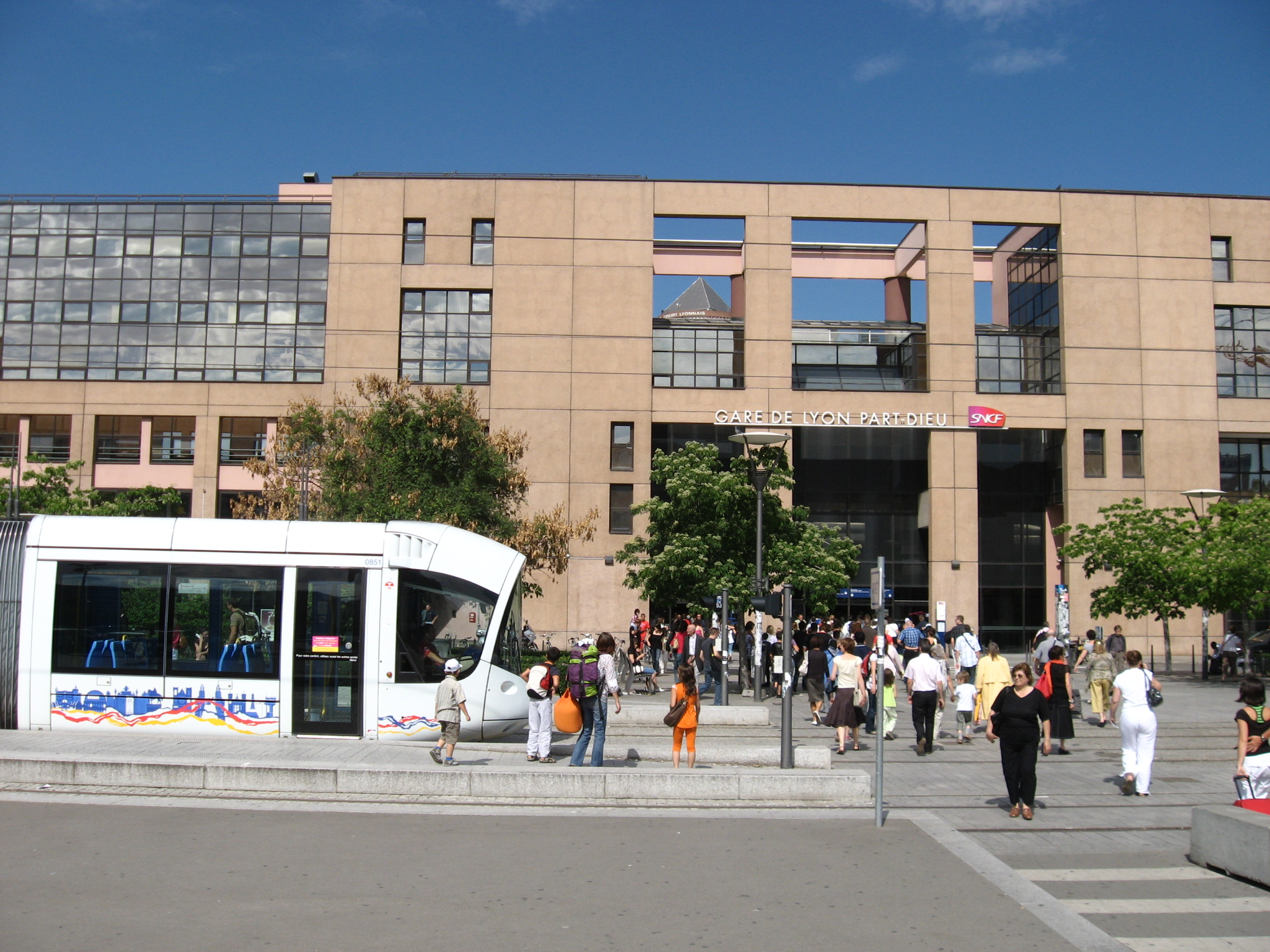 East entrance to the station off Gare de Lyon Part-Dieu. Starting point off the Line 3 tram